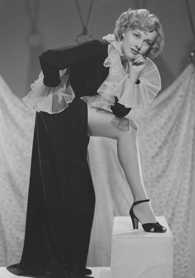 Kay Williams in 1943 studio headshot